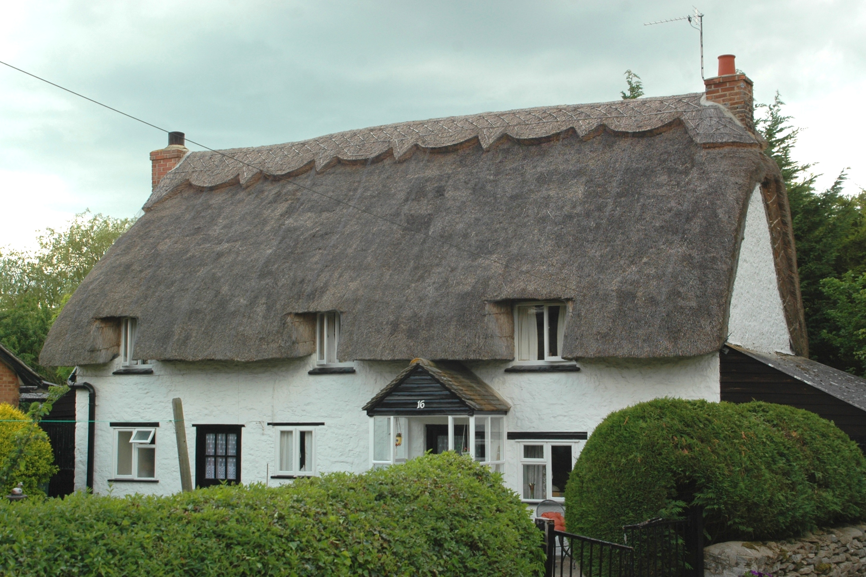 "Miropa", 16 Green Lane, Upper Arncott, Oxfordshire: a late 17th or early 18th century limestone cottage